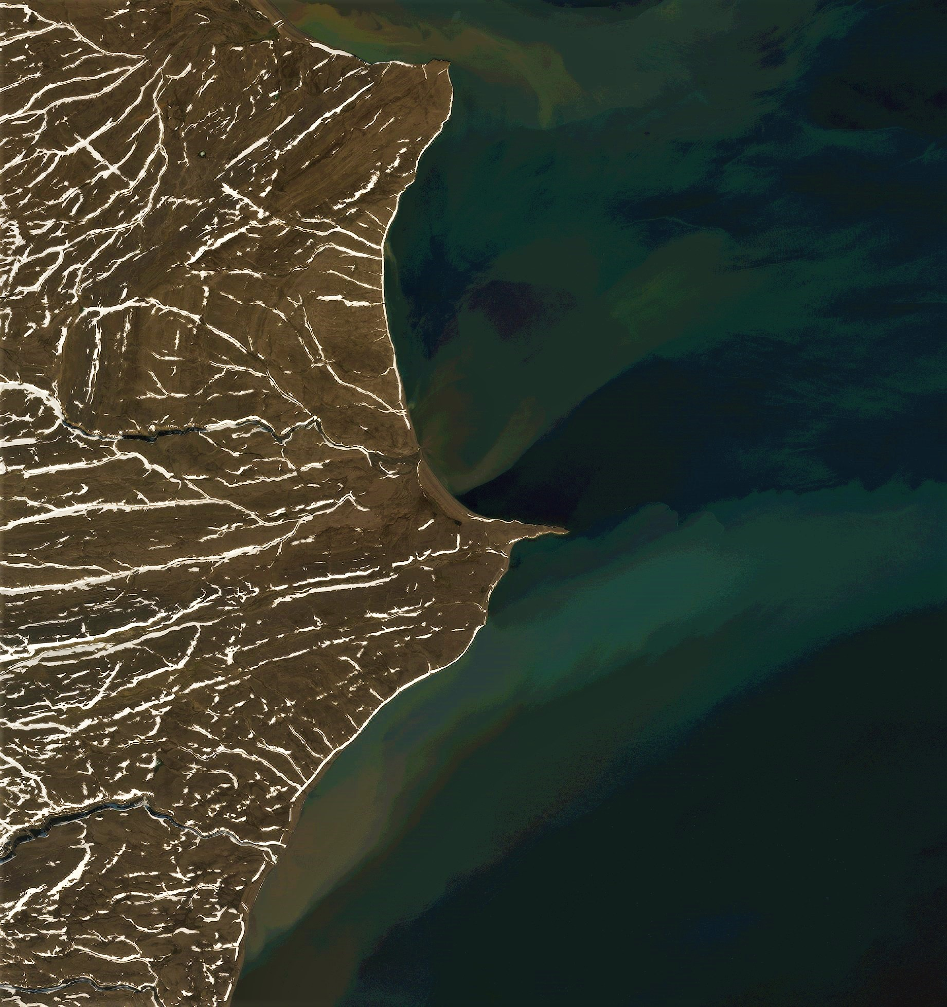 Cape Flissingsky, Northern Island, Novaya Zemlya, Russia (the easternmost point of Europe, including islands) Sentinel-2, near natural colors, 20-JUL- 2017, spatial resolution 10 m